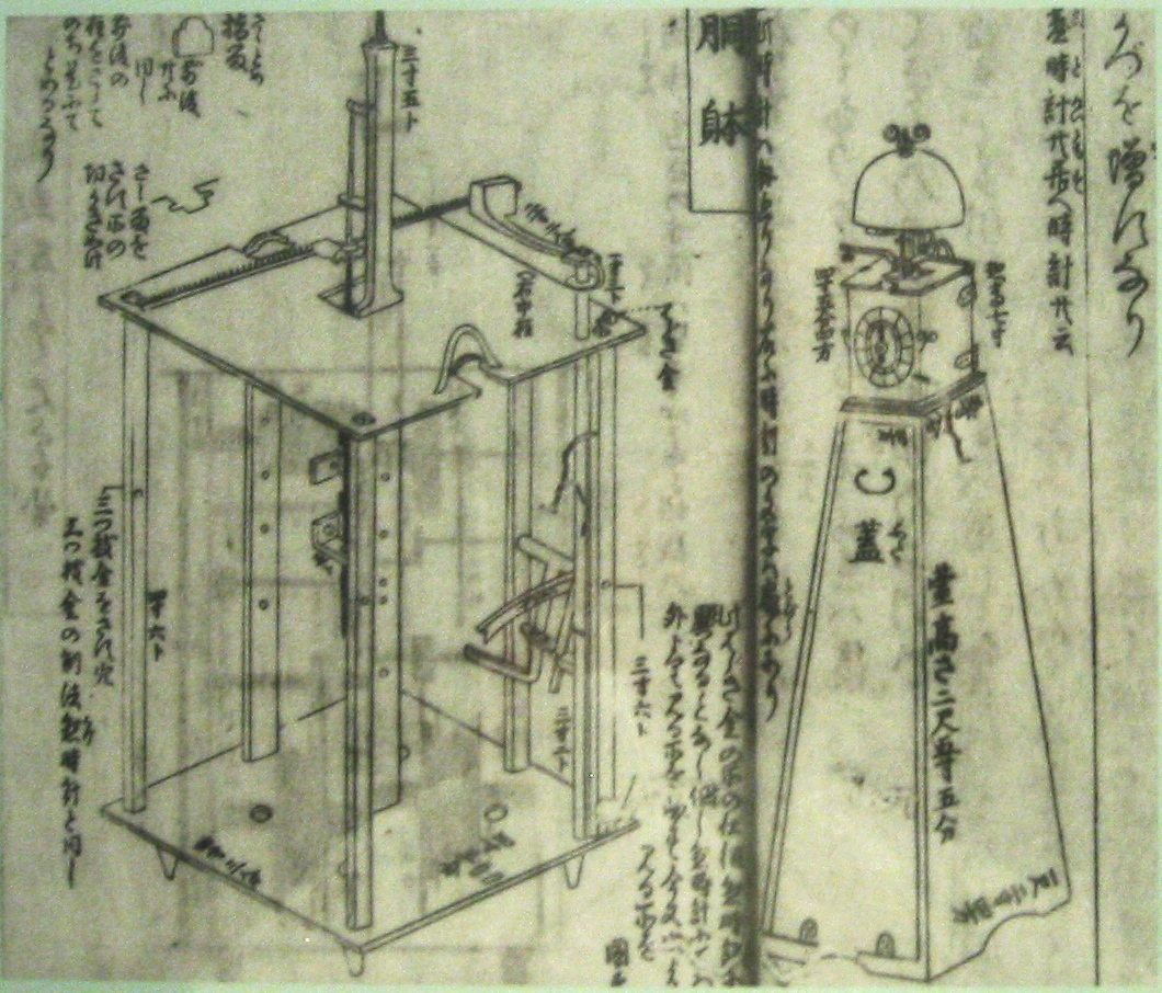 Mecanism of a Japanese clock. Early 19th century. This Book is Karakuri-Zui 機巧図彙 published in 1796 by Hosokawa Hanzo(細川半蔵).